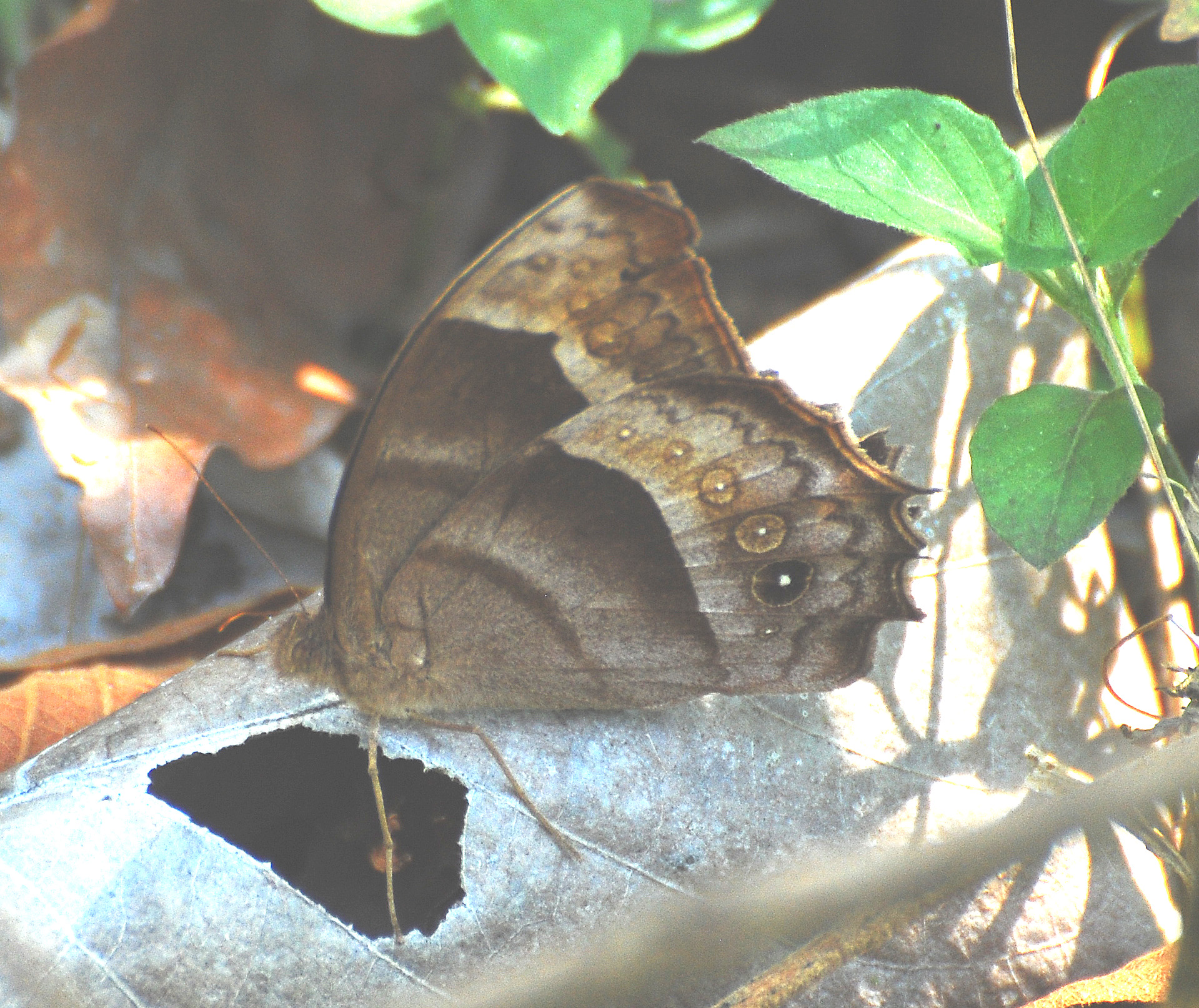 Andromeda Satyr along Constancia Road, the trail above Rancho Dioon, Mexico, 080330. Taygetis thamyra.